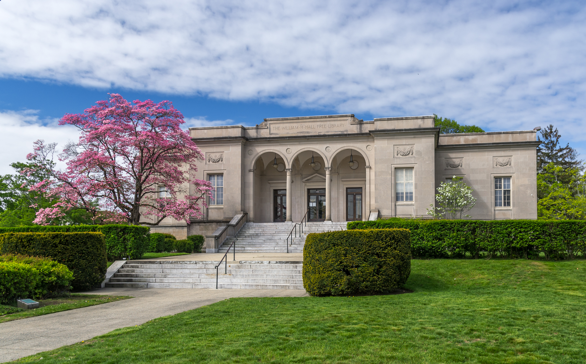 Built in 1927 in the Edgewood neighborhood. Designed by George Frederick Hall of Martin & Hall.